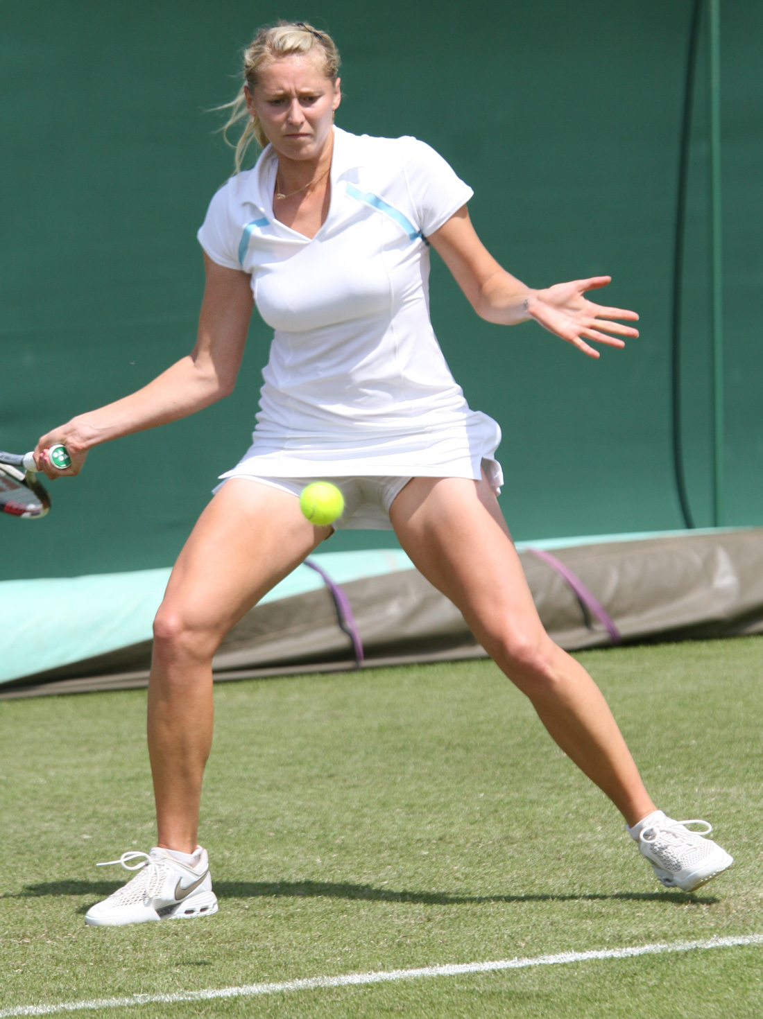 Russian/Belarussian tennis player Olga Puchkova playing in the first round of qualifiers at Wimbledon on 17 June 2008 against Tara Moore.